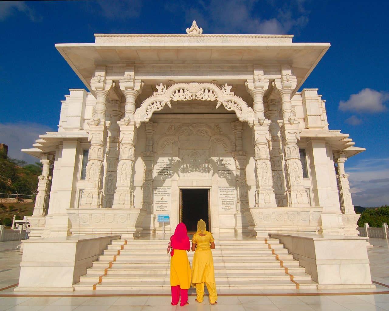 Birla Mandir or the Lakshmi-Narayan Temple, situated just below the Moti Dungari is a modern temple built of white marble on top of a hill, dominating the skyline of south Jaipur. The Birlas (industrialists who have also built several temples in India) built this temple. The temple has been constructed in white marble and has three domes, each portraying the different approaches to religion. The presiding deities here are Vishnu (One of the Hindu Trilogy Gods) called Narayan and his consort Lakshmi Goddess of wealth and good fortune. The temple is built is white in marble and exterior has carved sculptures of various mythological themes and images of saints. The interior has large panel in marble of mythological proceedings. The images of the deities are placed in the sanctum sanctorum. Built on raised ground, it is surrounded by large lush green gardens. Birla Mandir is sheer poetry in stone was built over a span of ten years by the Birla Foundation